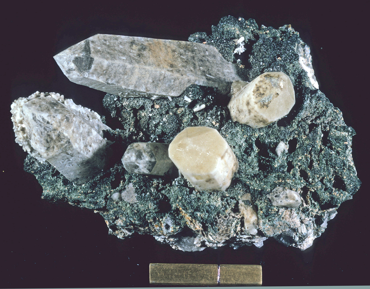 Chlorapatite Locality: Kurokura, Yamakita, Kanagawa, Japan Original description: Apatite crystals with quartz crystals with chlorite and stilbite. Specimen from the collection of Arthur Montgomery 1972 (whose label mistakenly attributed it to the Ashio copper mine). Scale at bottom of image is an inch with a rule at one cm.